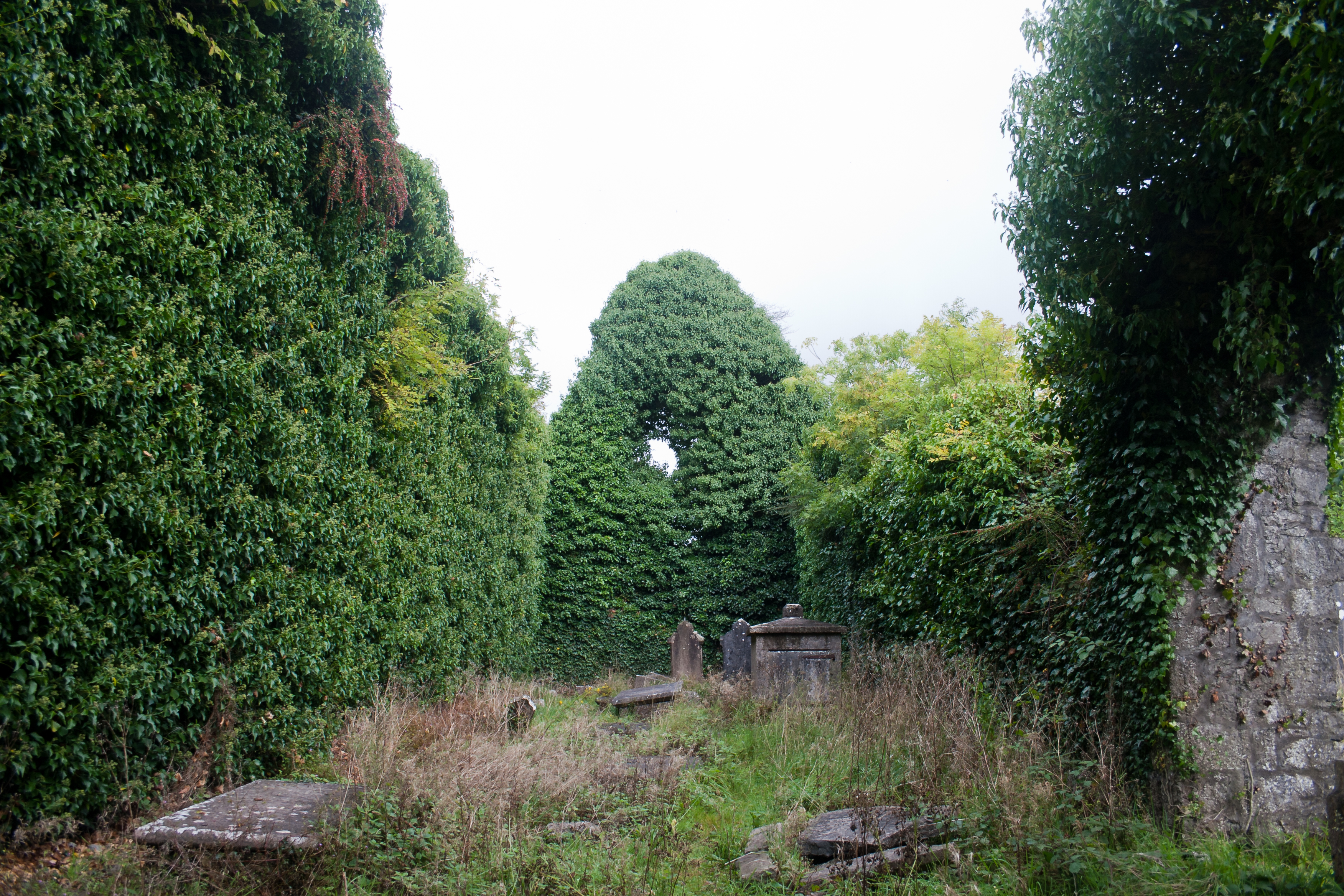 Nave of Ballymote Friary, looking east.